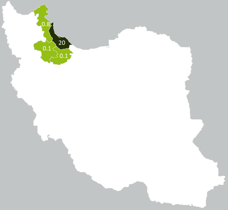 According to the survey carried out by Ministry of Culture of İran in 2010: provinces of mother tongue speaker of Talyshis and their proportions among population in those provinces.